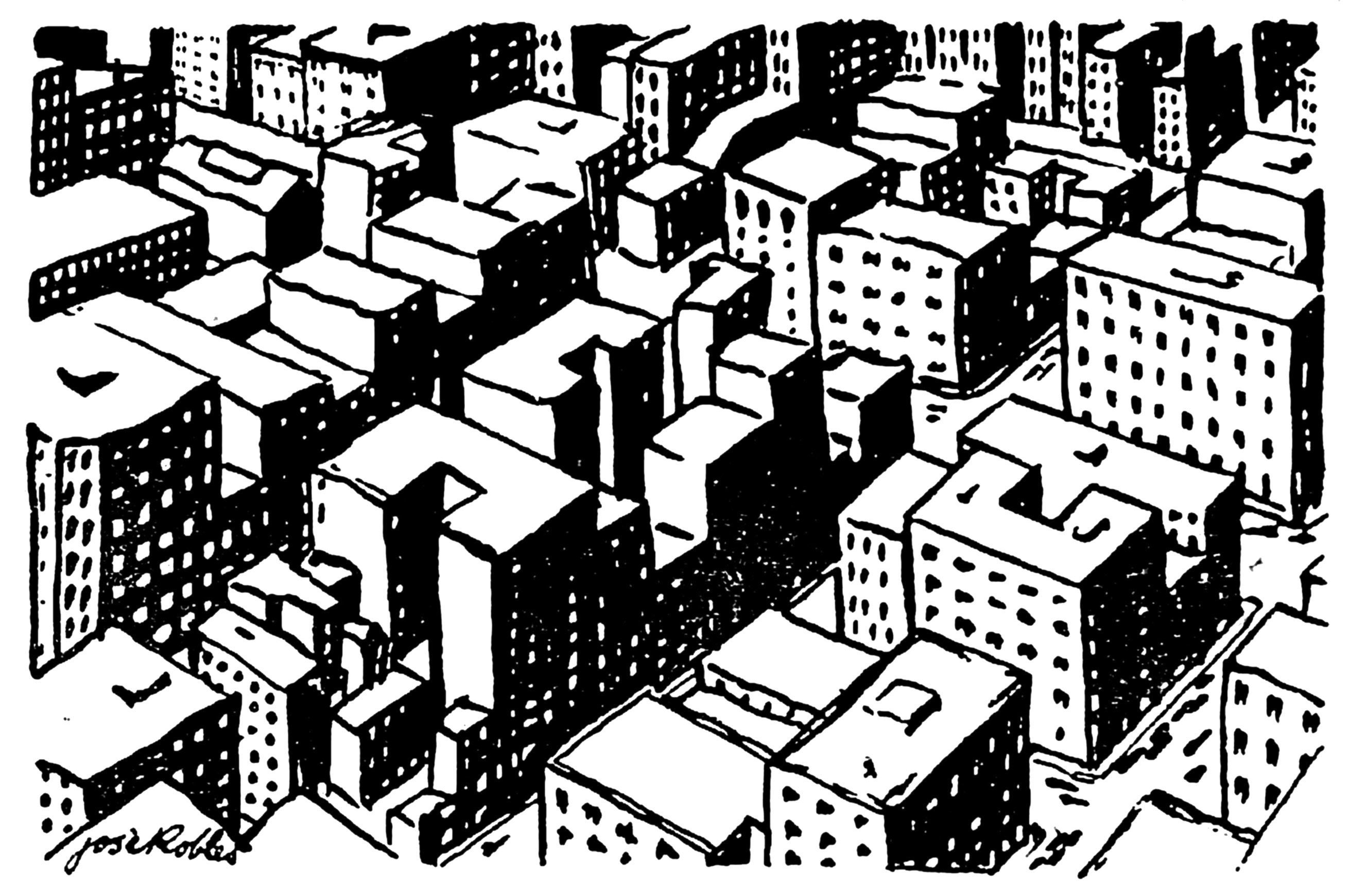 Downtown, cityscape, presumably American-themed, by the Spanish socialist José Robles. As published by the Romanian avant-garde magazine unu.